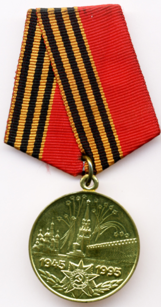 Medal 50 Years of Victory in the Great Patriotic War